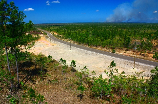 Southern Highway, Toledo District, Belize, with Pinus hondurensis